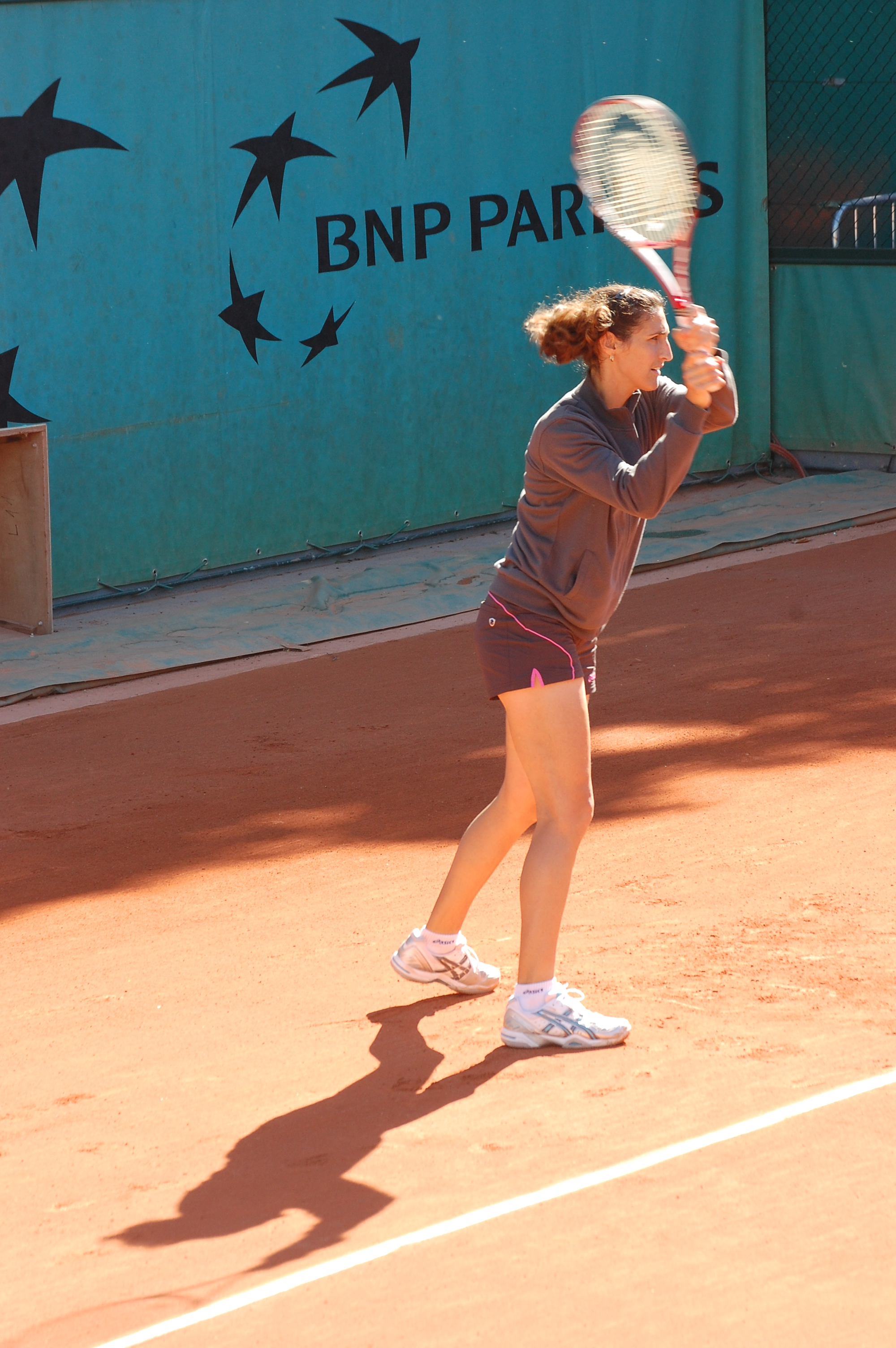 Virginie Razzano, Roland Garros, 2009 French Open